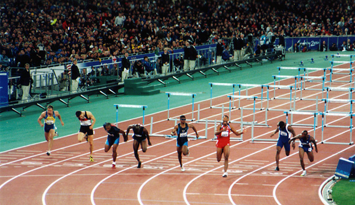 A thrilling finish to the men's 110m hurdle final